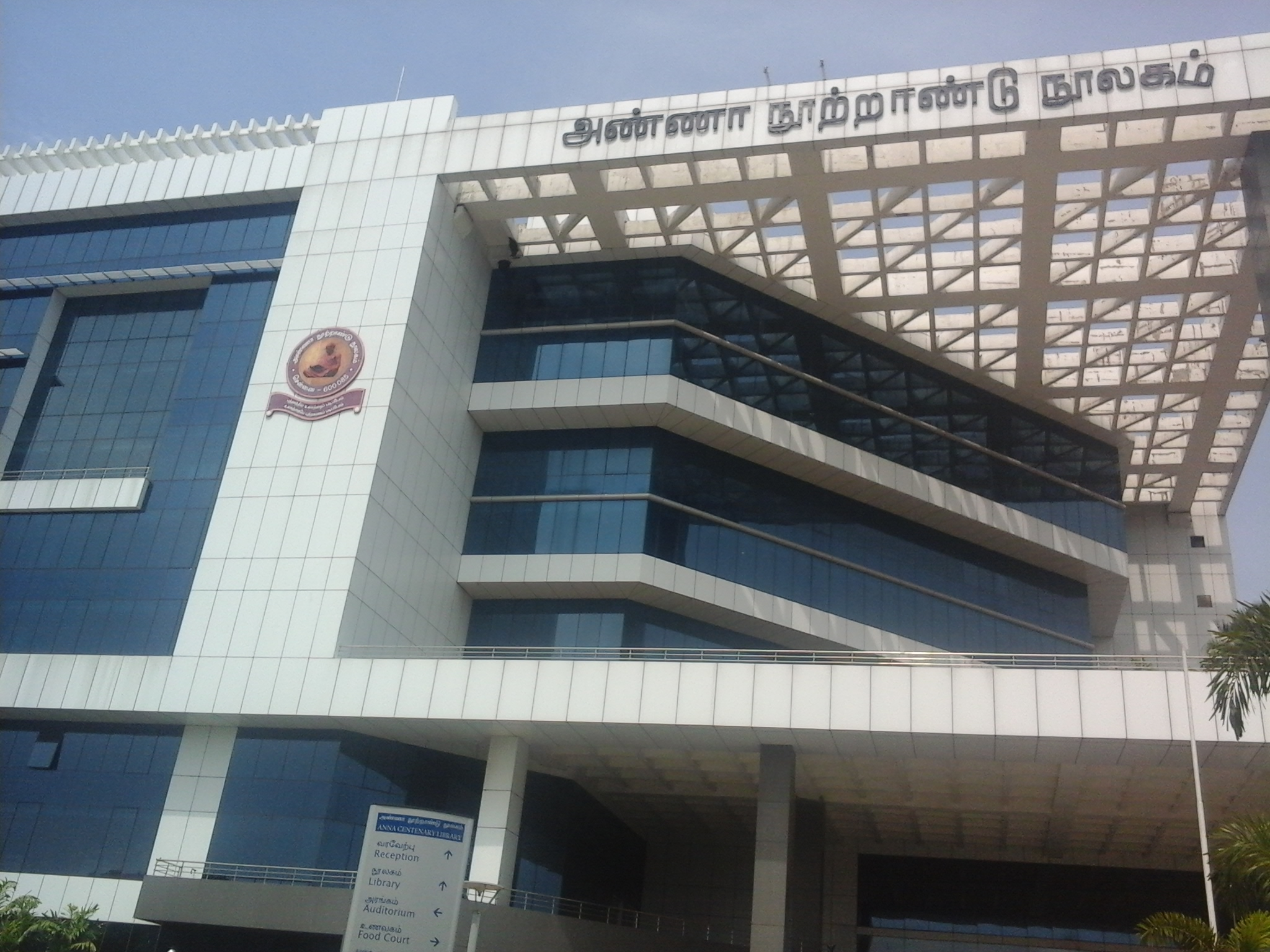 Tamil wikipedia 10 years celebrations :Anna Century library, Chennai.